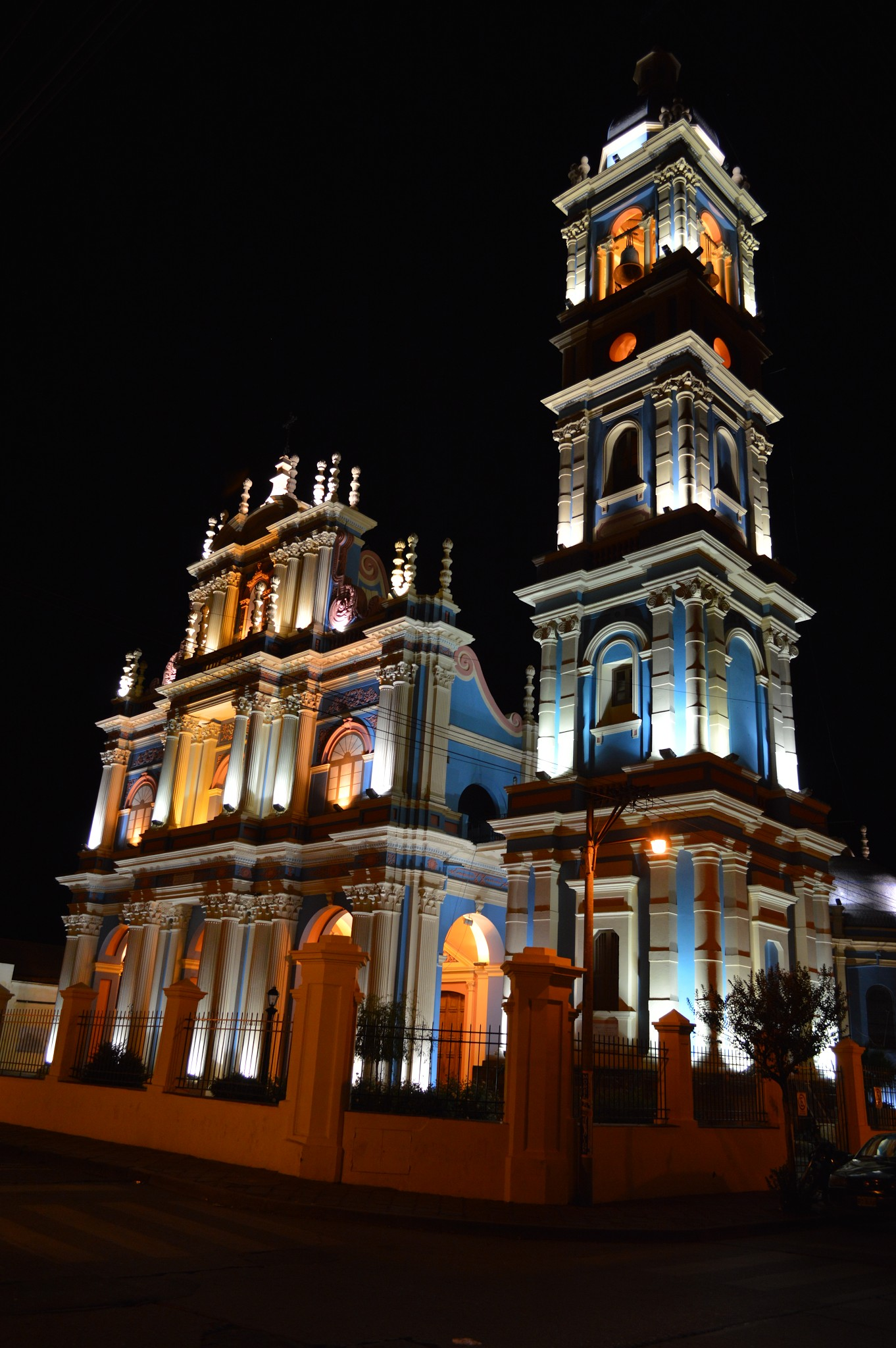 Iglesia de la Viña, provincia de Salta. Argentina